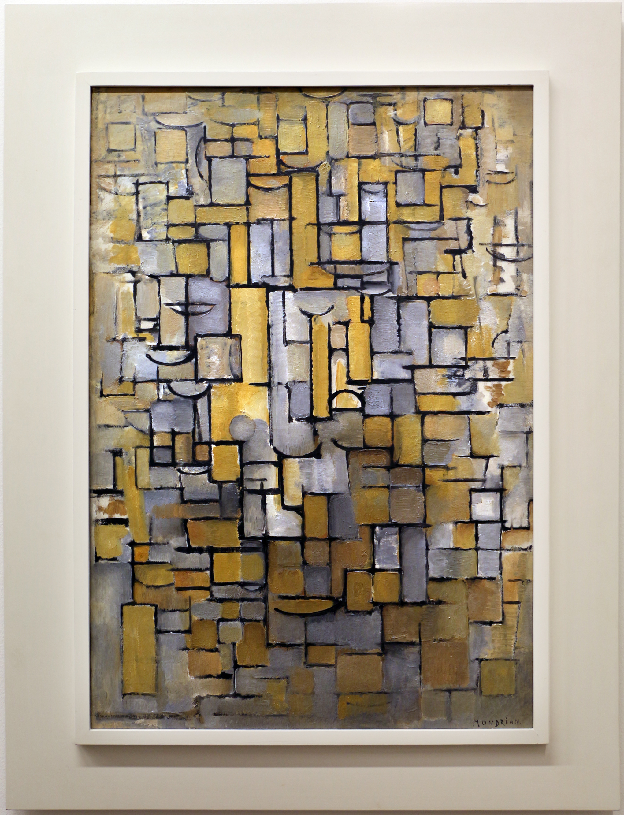 Van Abbemuseum